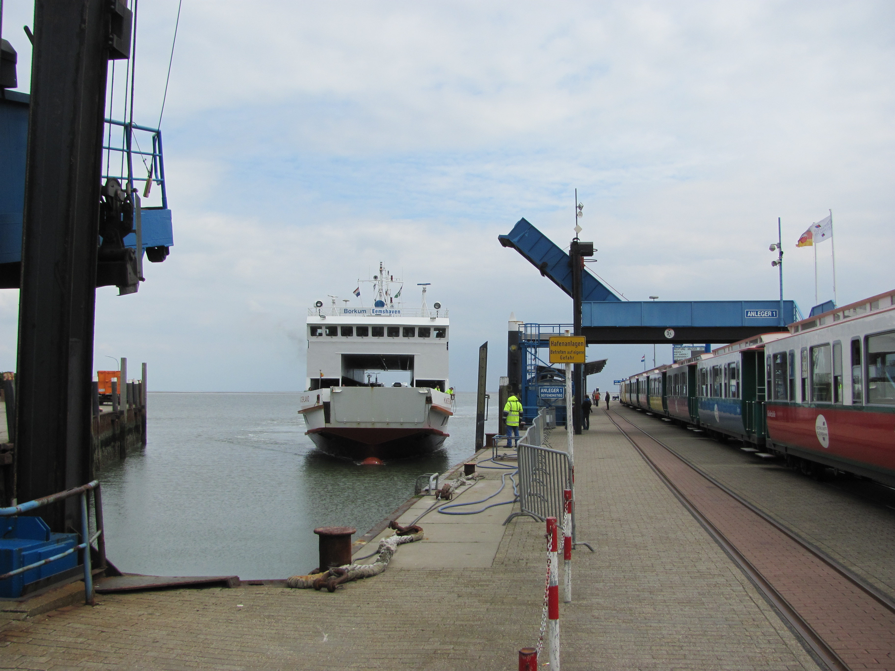 Borkum harbour